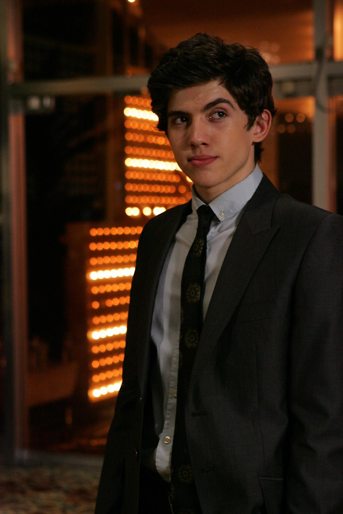 American actor Carter Jenkins